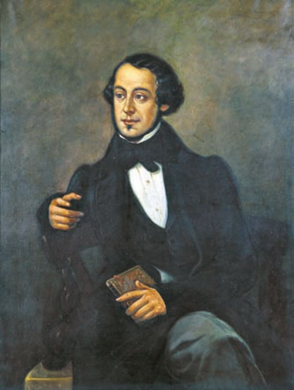 Almeida Garrett (1799-1854)